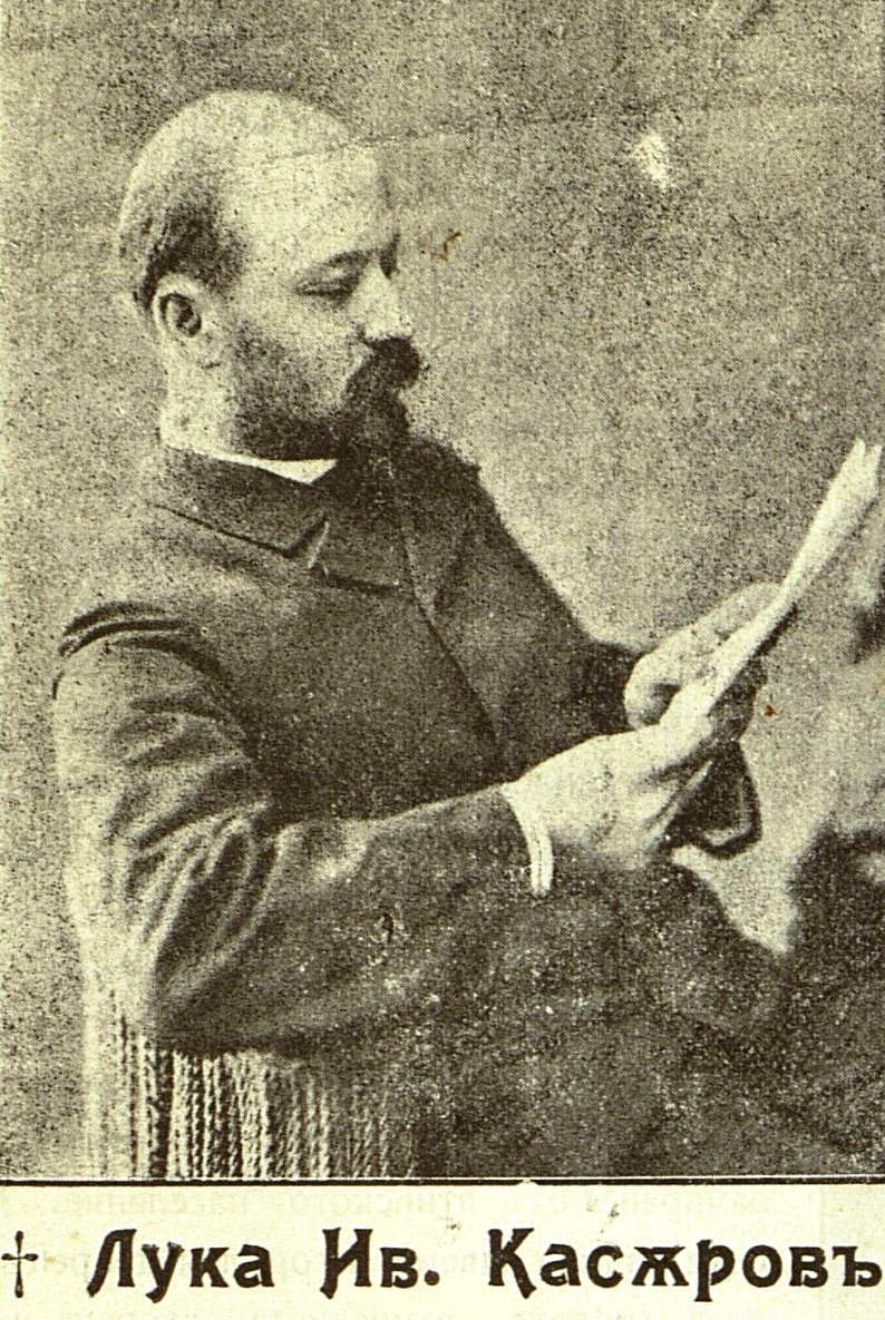 Luka Kasarov (1854 - 1916) - Bulgarian educator and bibliographer, known as the first Bulgarian encyclopedist